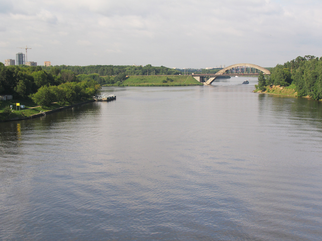 Khimkinski bridge of Oktyabrskaya Railway over Moscow Canal